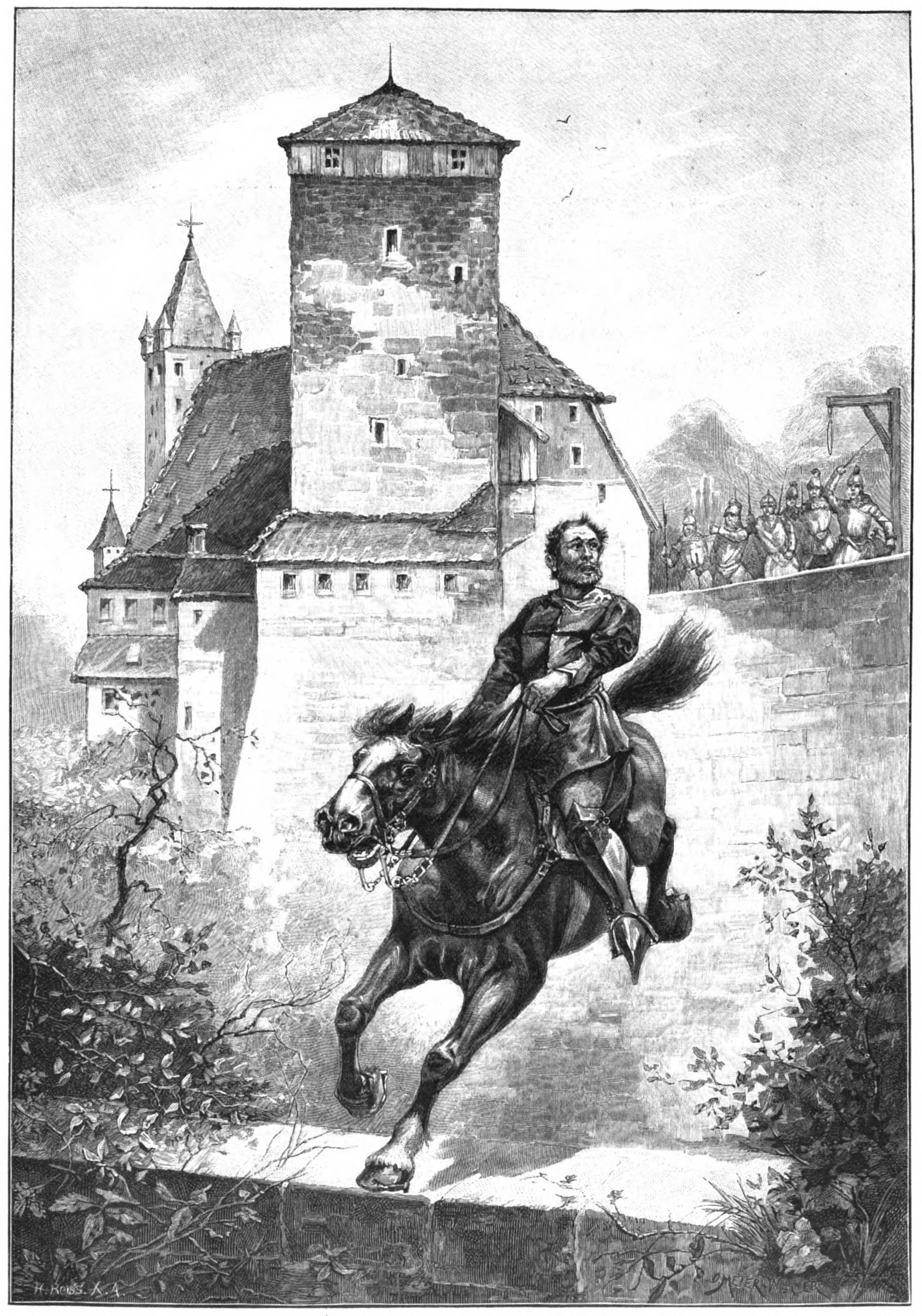 no caption